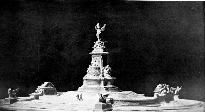 Photograph of Original Sketch-Model for the Queen Memorial by Sir Thomas Brock, K.C.B., R.A..